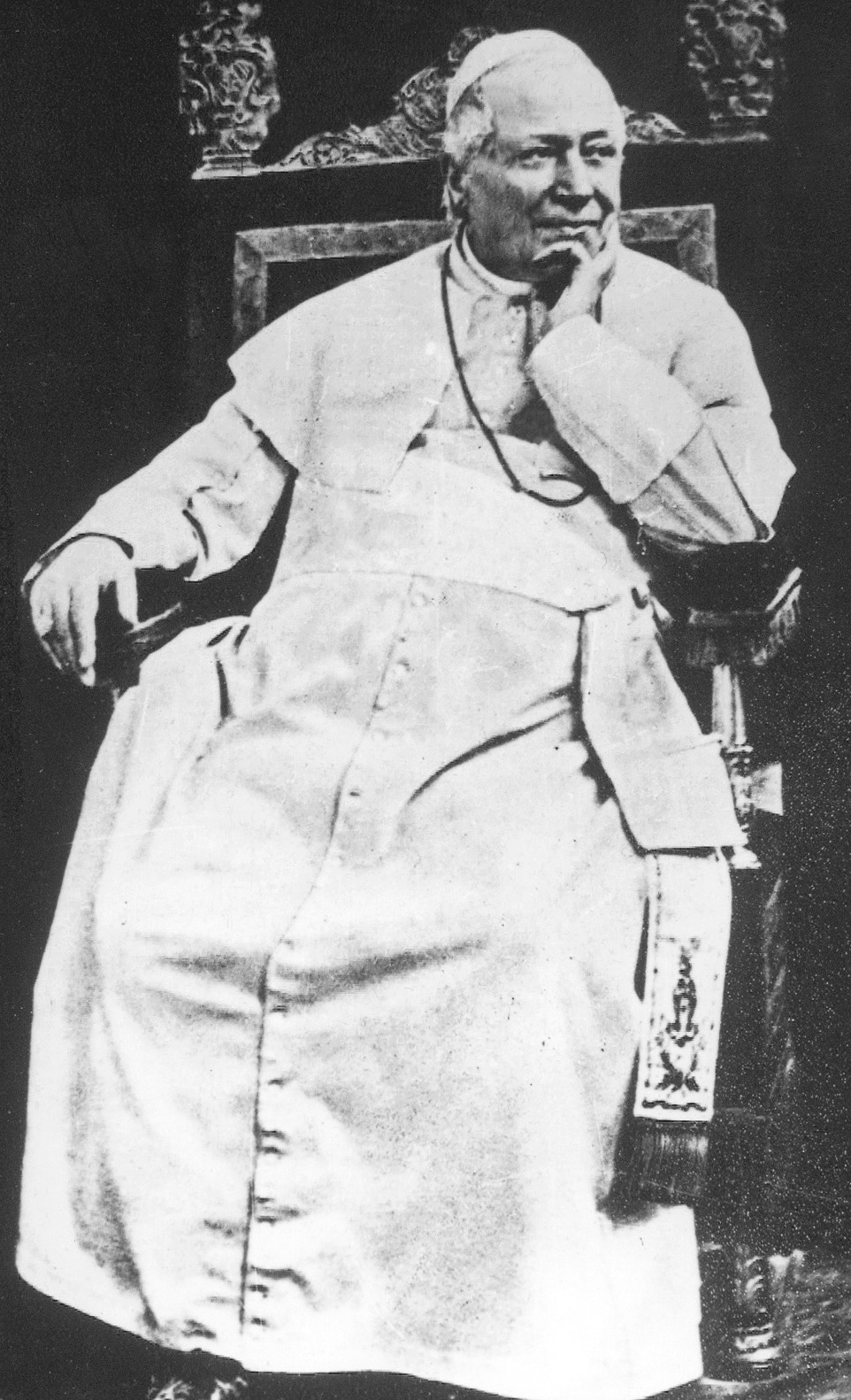 Pope Pius IX, born Giovanni Maria Mastai-Ferretti, who reigned from 16 June 1846 to his death in 1878.